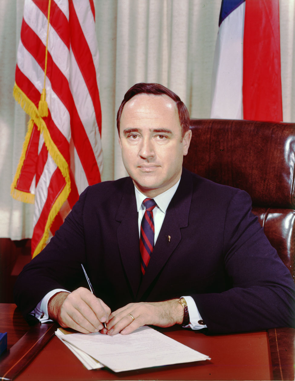 Robert Scott, 1969-1972 From the General Negative Collection, State Archives of North Carolina, Raleigh, NC.